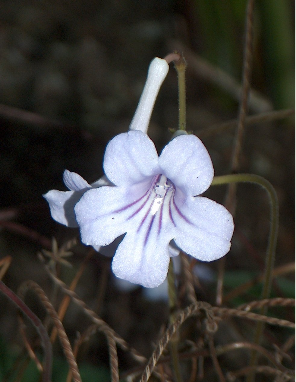 Flower of Streptocarpus gardenii Hook.